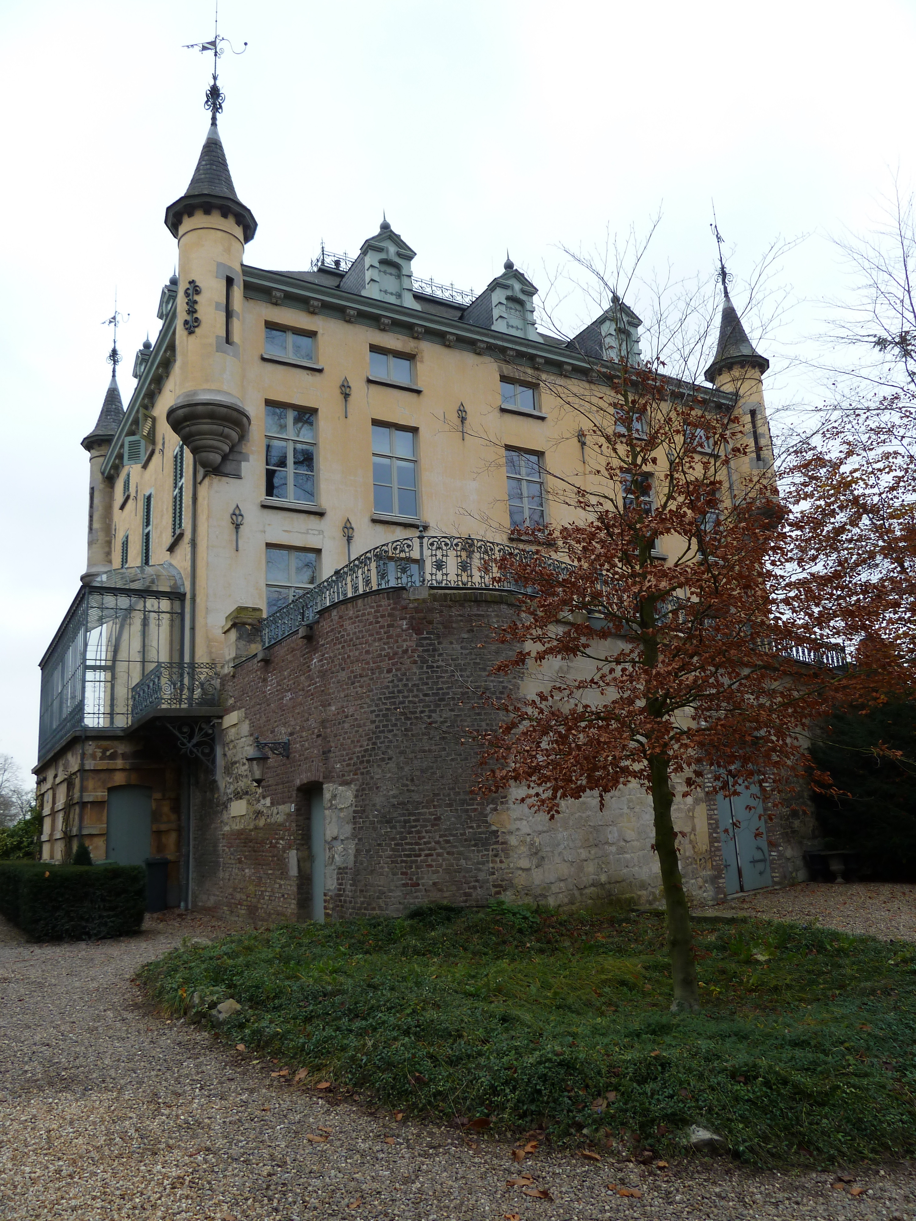 Castle gronsveld, Limburg, the Netherlands